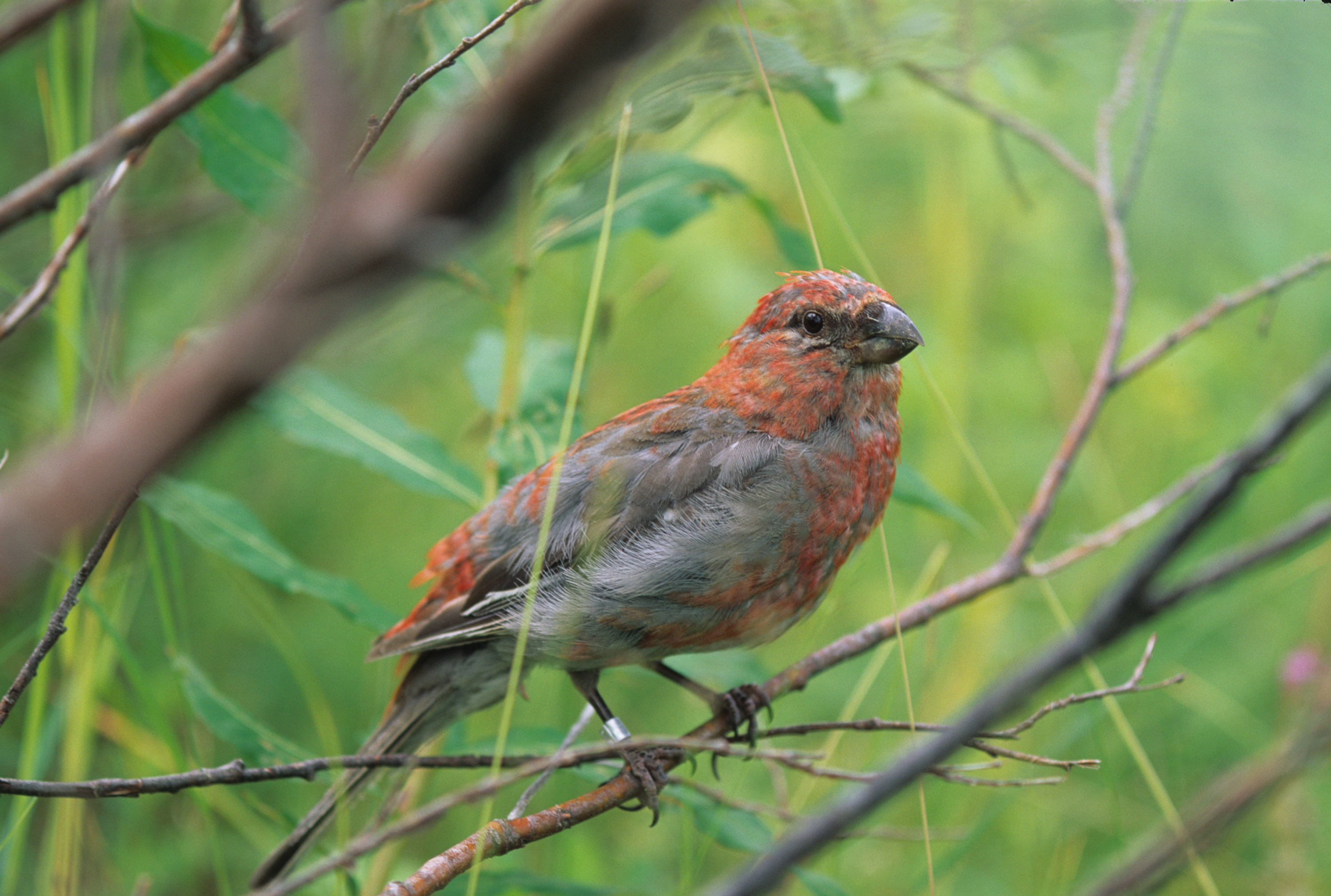 Pine Grosbeak Pinicola enucleator, molting male, Mother Goose Lake, Alaska Peninsula National Wildlife Refuge